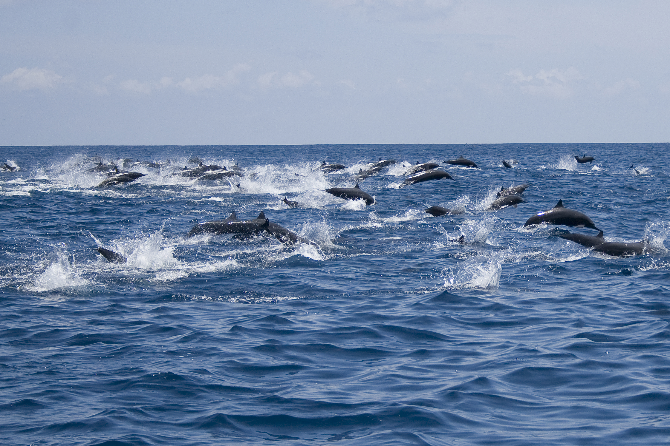 Delfines cerca de la costa de Carrillo